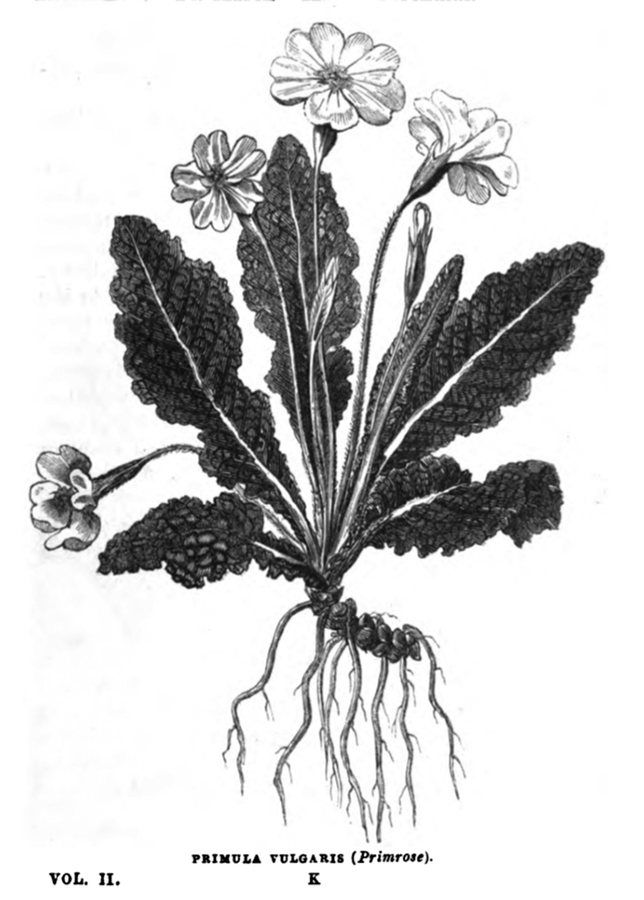 Primula vulgaris or primrose. Illustration by Emily Stackhouse for C.A. Johns, Flowers of the Field (1851), p. 129.